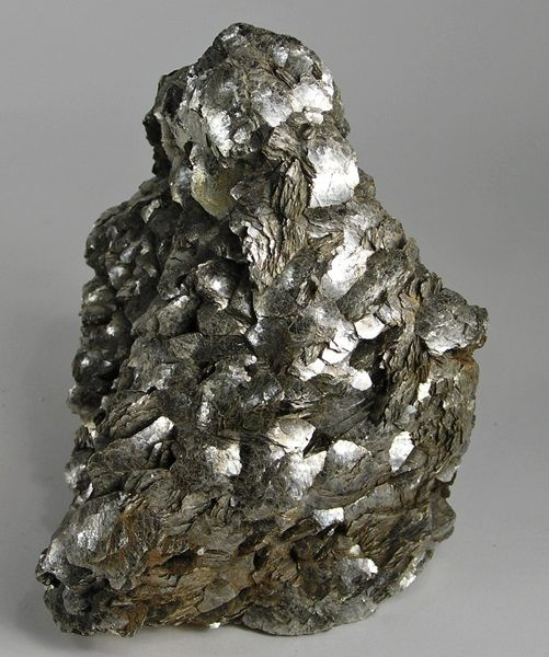 Muscovite Locality: Wichita Mts, Comanche County, Oklahoma, USA (Locality at ) Size: 10.9 x 9.9 x 8.4 cm. A striking and rare cabinet specimen from the Wichita Mountains of Commanche County, Oklahoma. This very showy piece features four sides of solid, silvery-bright, platy, globular muscovite. Muscovite is rare from here. Ex. Mullane Collection.